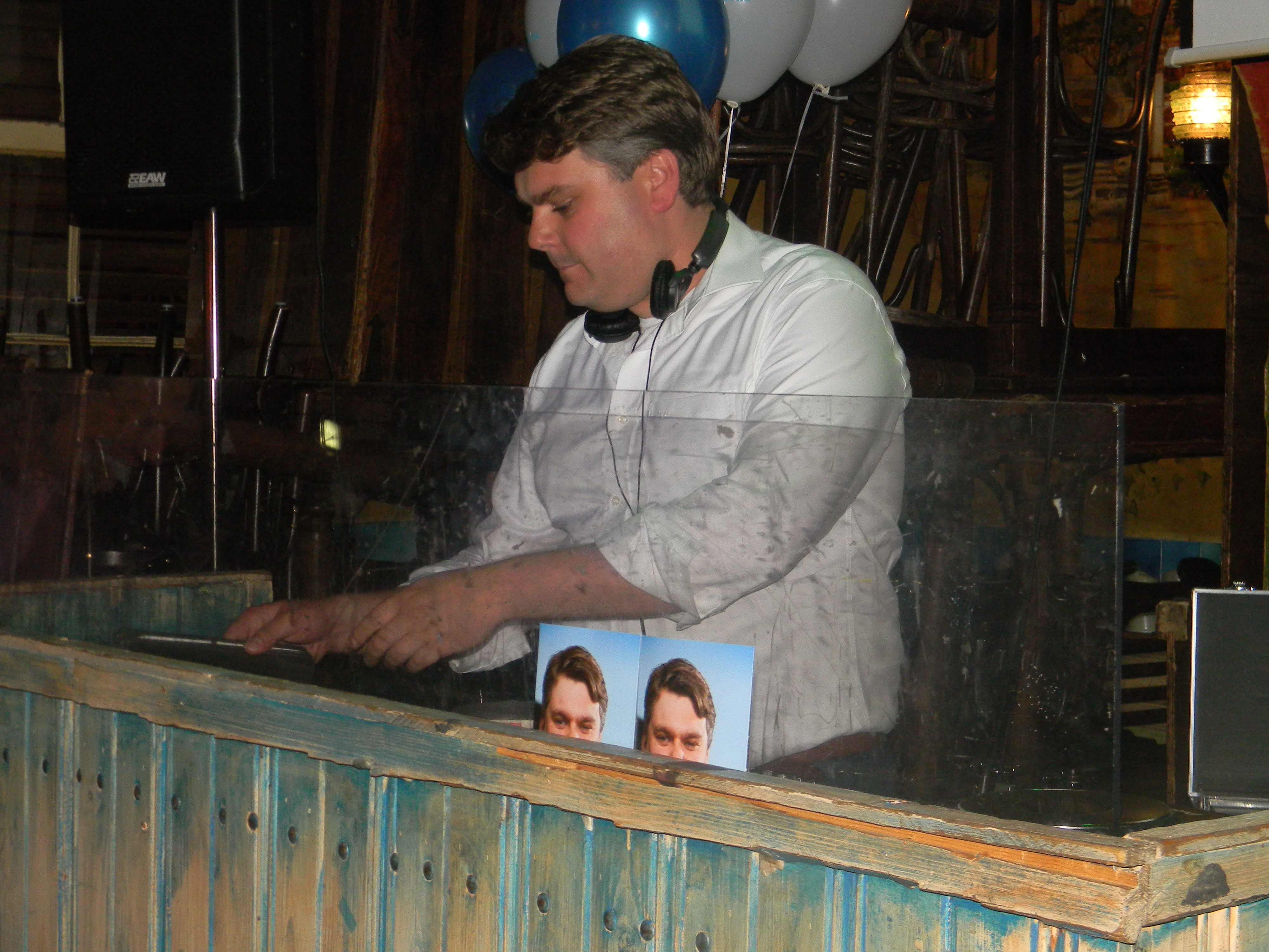 Ed Anker as dj during the election night of the ChristenUnie for the national elections in 2010. Anker lost his seat in parliament